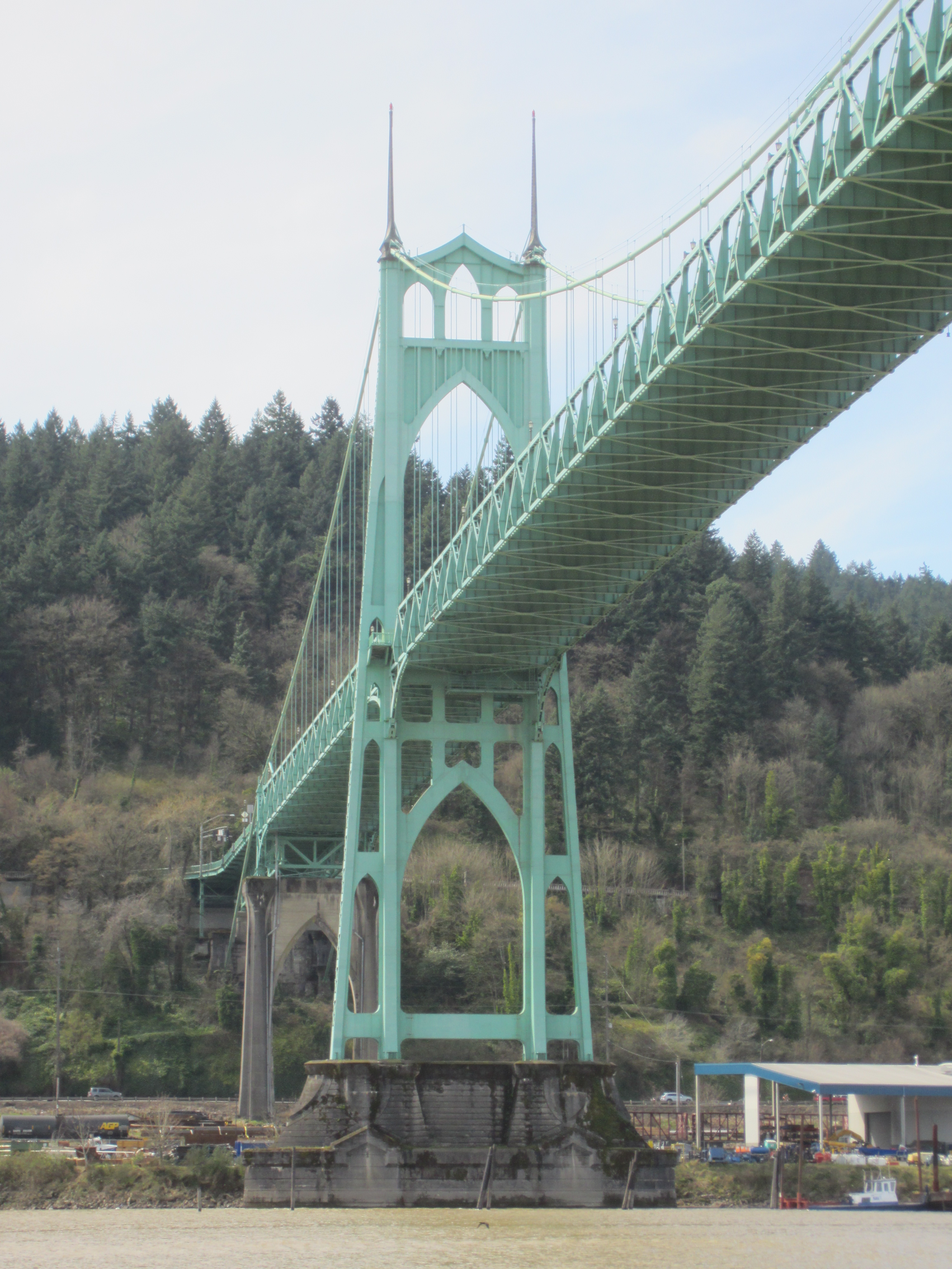 St. Johns Bridge, located in St. Johns, Portland, Oregon in 2012